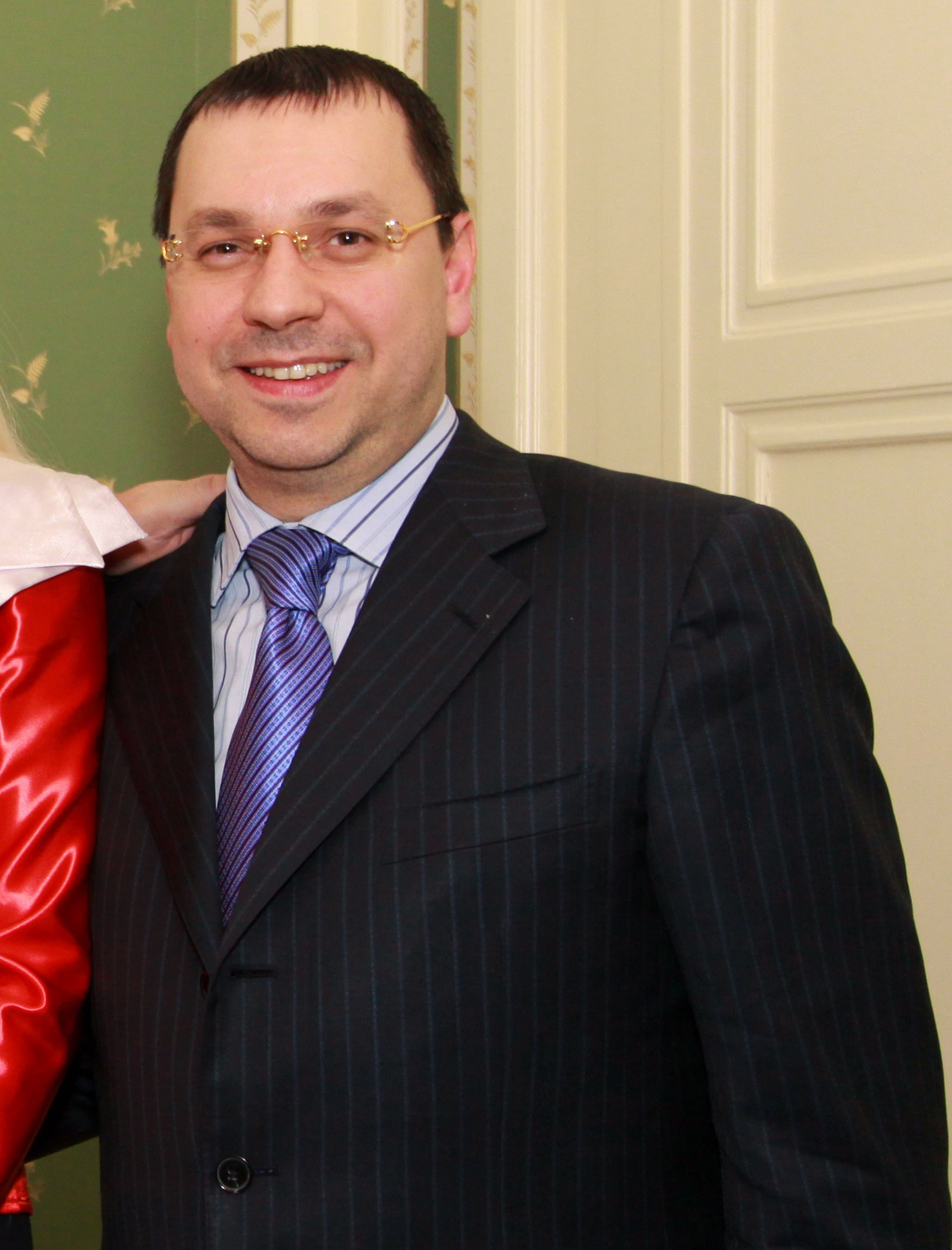 Ihor Dir, Ukrainian diplomate, Ambassador of Ukraine to Switzerland